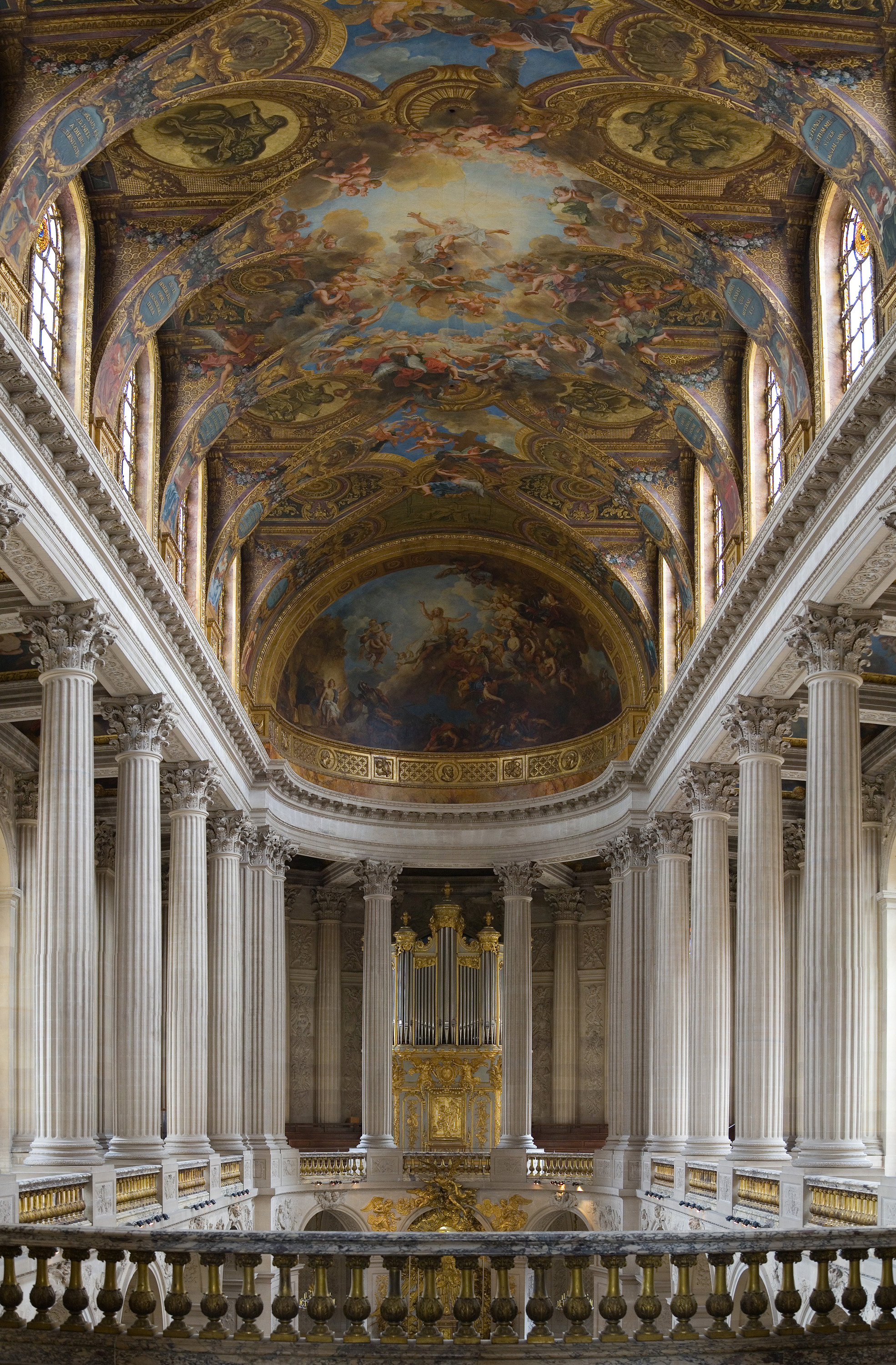 A four segment vertical panorama of the Royal Chapel of the Palace of Versailles. Taken with a Canon 5D and 24-105mm f/4L IS lens.